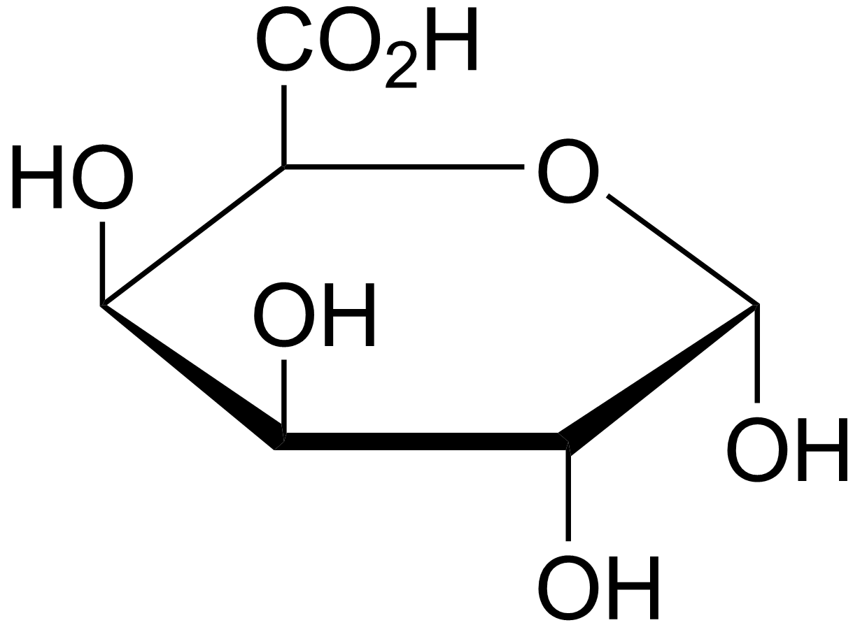 Chemical structure of galacturonic acid created with ChemDraw.